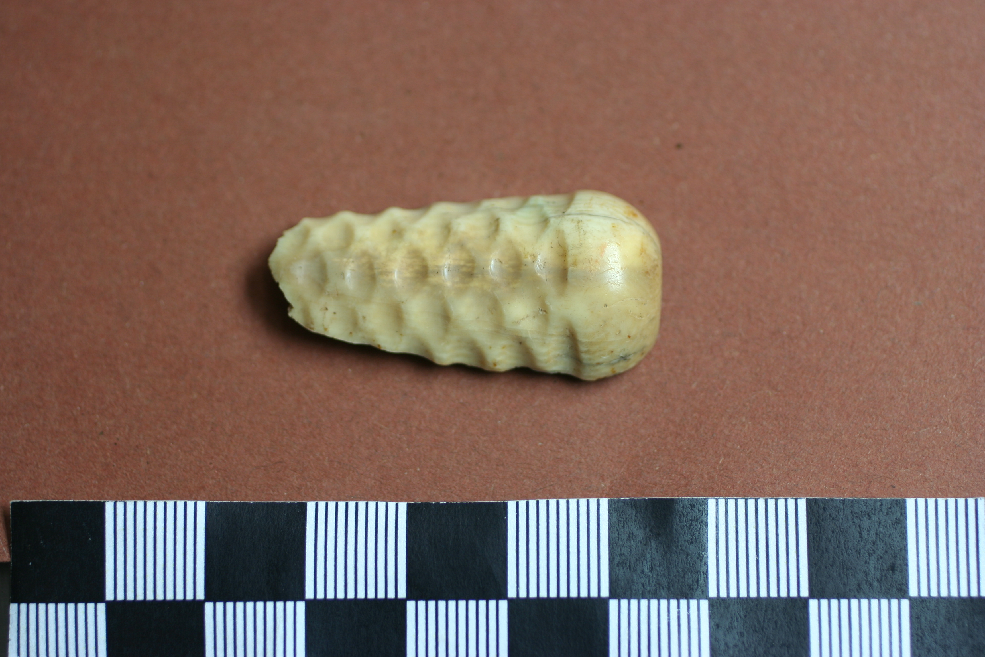 Fragment of an ivory knife handle from the smithy site of Käku, Saaremaa, Estonia. Dated to 16.-17. century AD. Found in the year 2012 during the excavations.